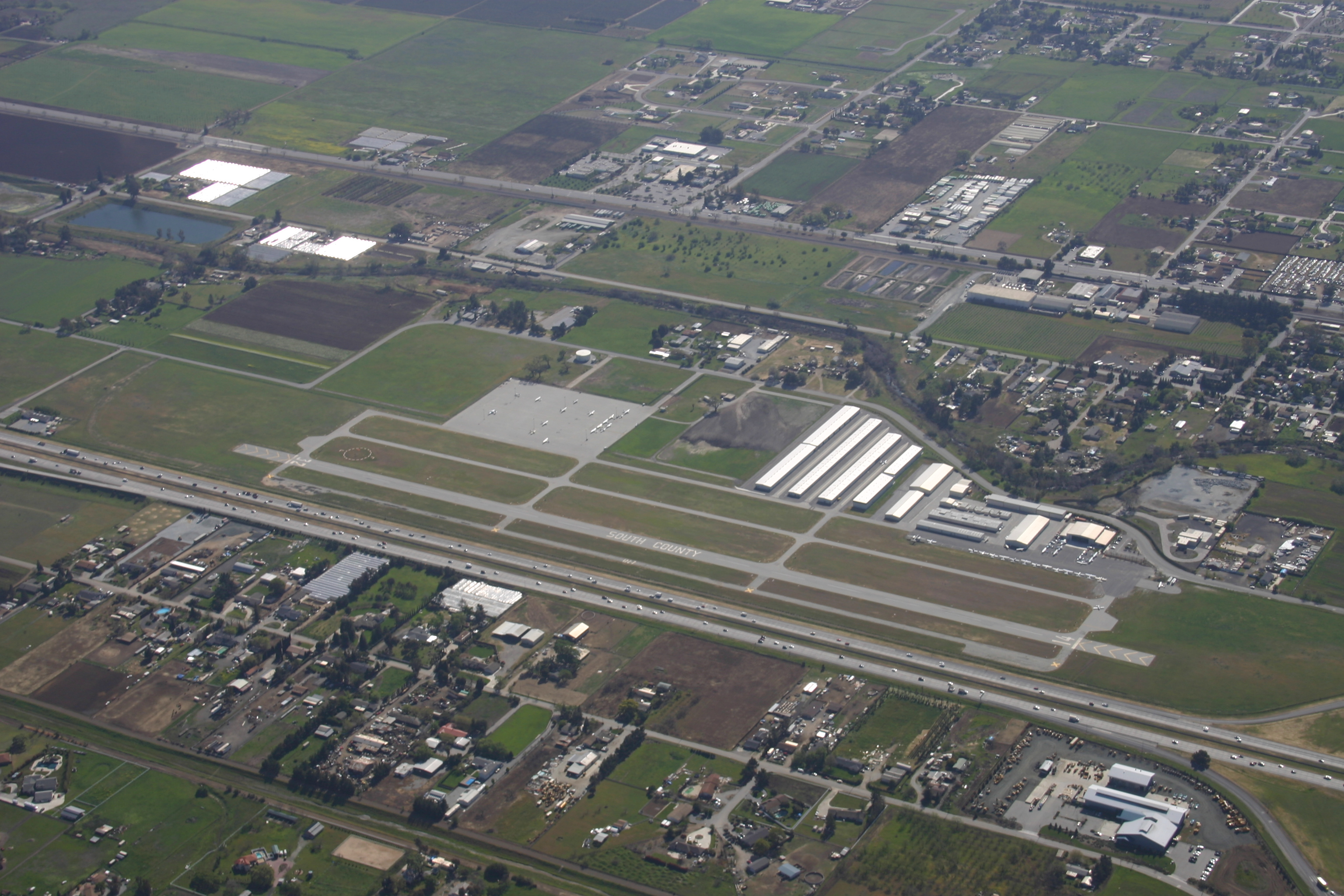 Aerial photo of South County Airport in San Martin, California, viewed from northeast.